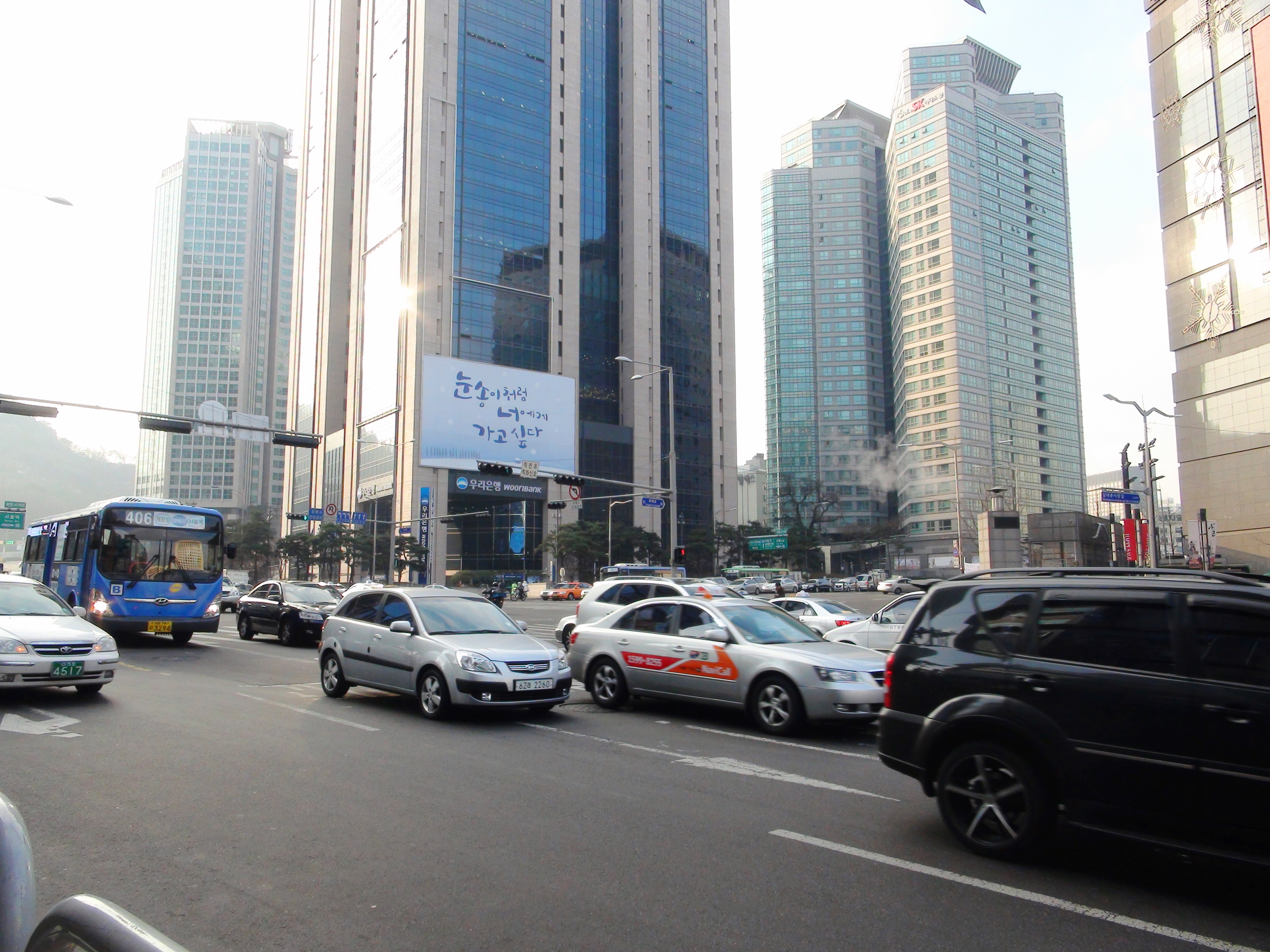 Hoehyeon intersection,Jung-gu, Seoul